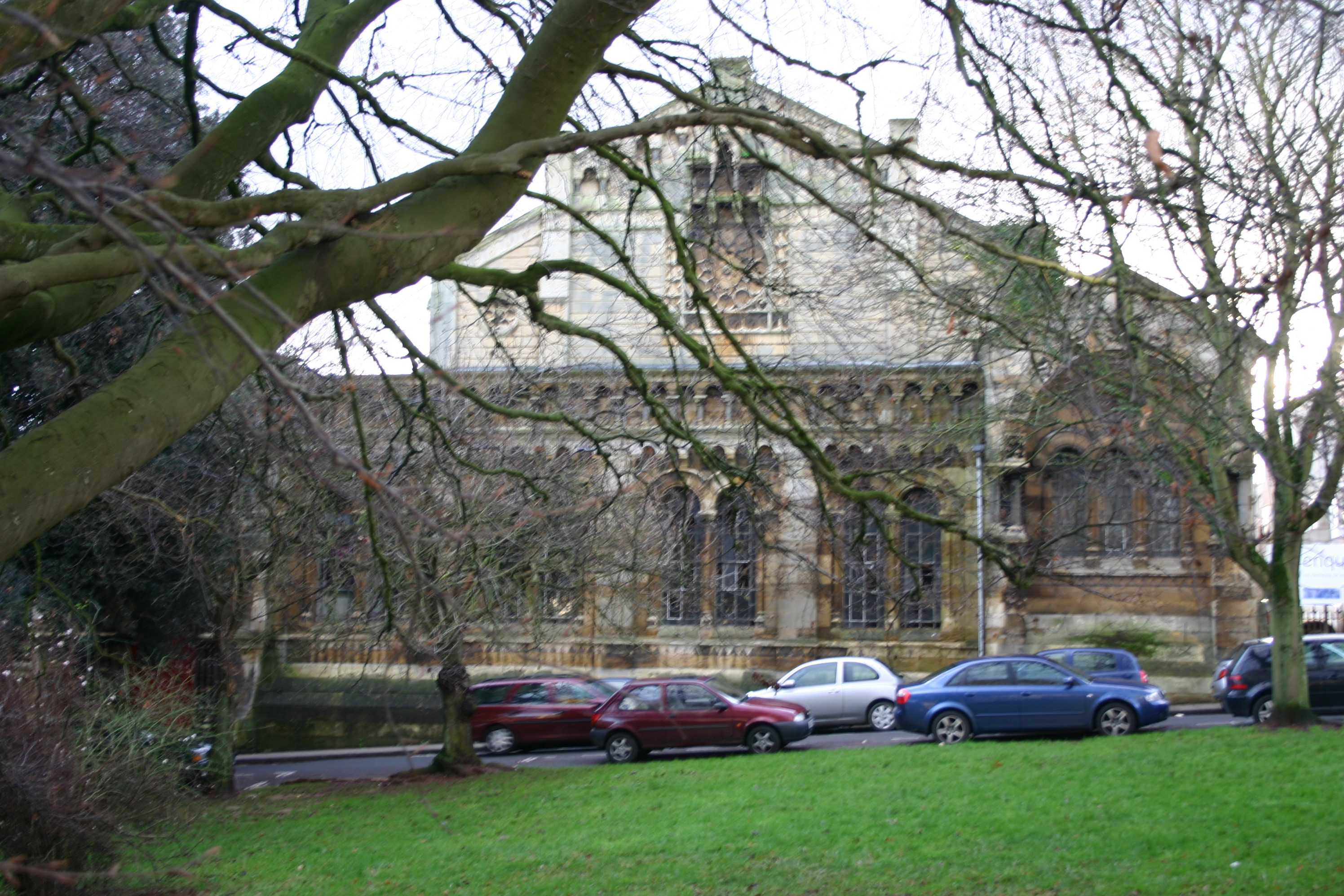 View of the Pro Cathedral of the Holy Apostles from Park Place, Clifton, Bristol